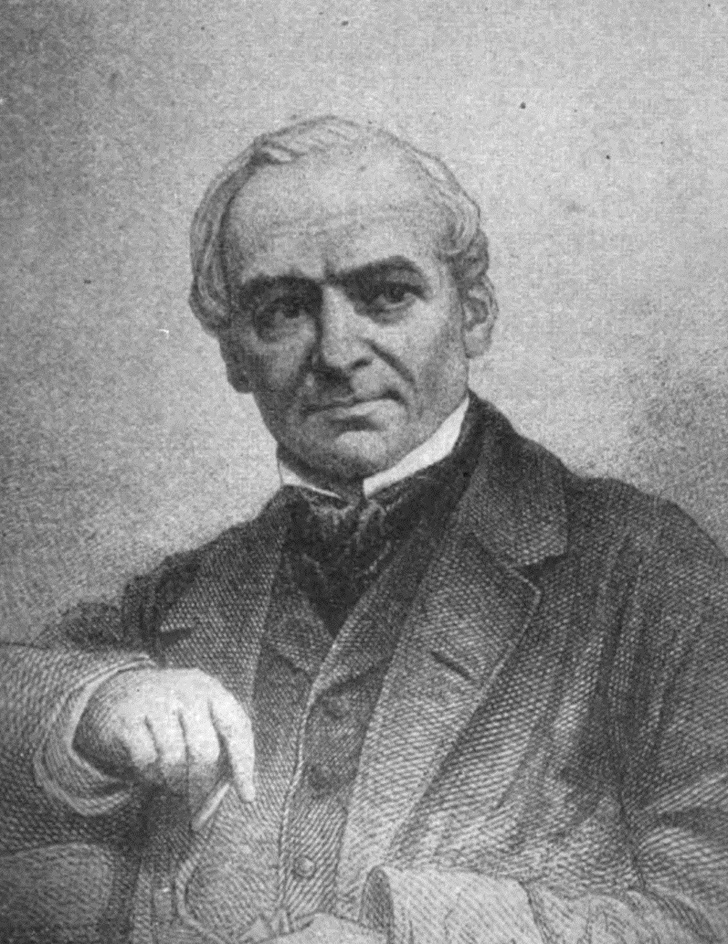 Prosper Mérimée